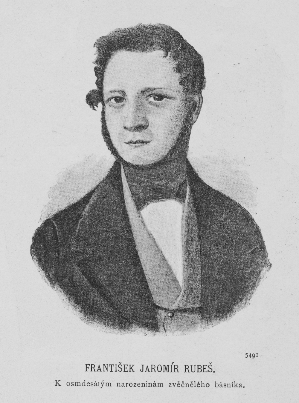 Portrait of František Jaromír Rubeš (1814 - 1853), Czech writer.